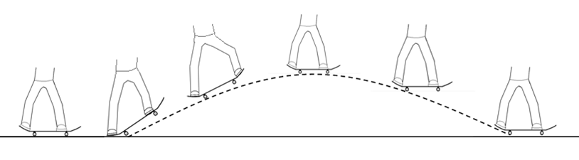 projectyle